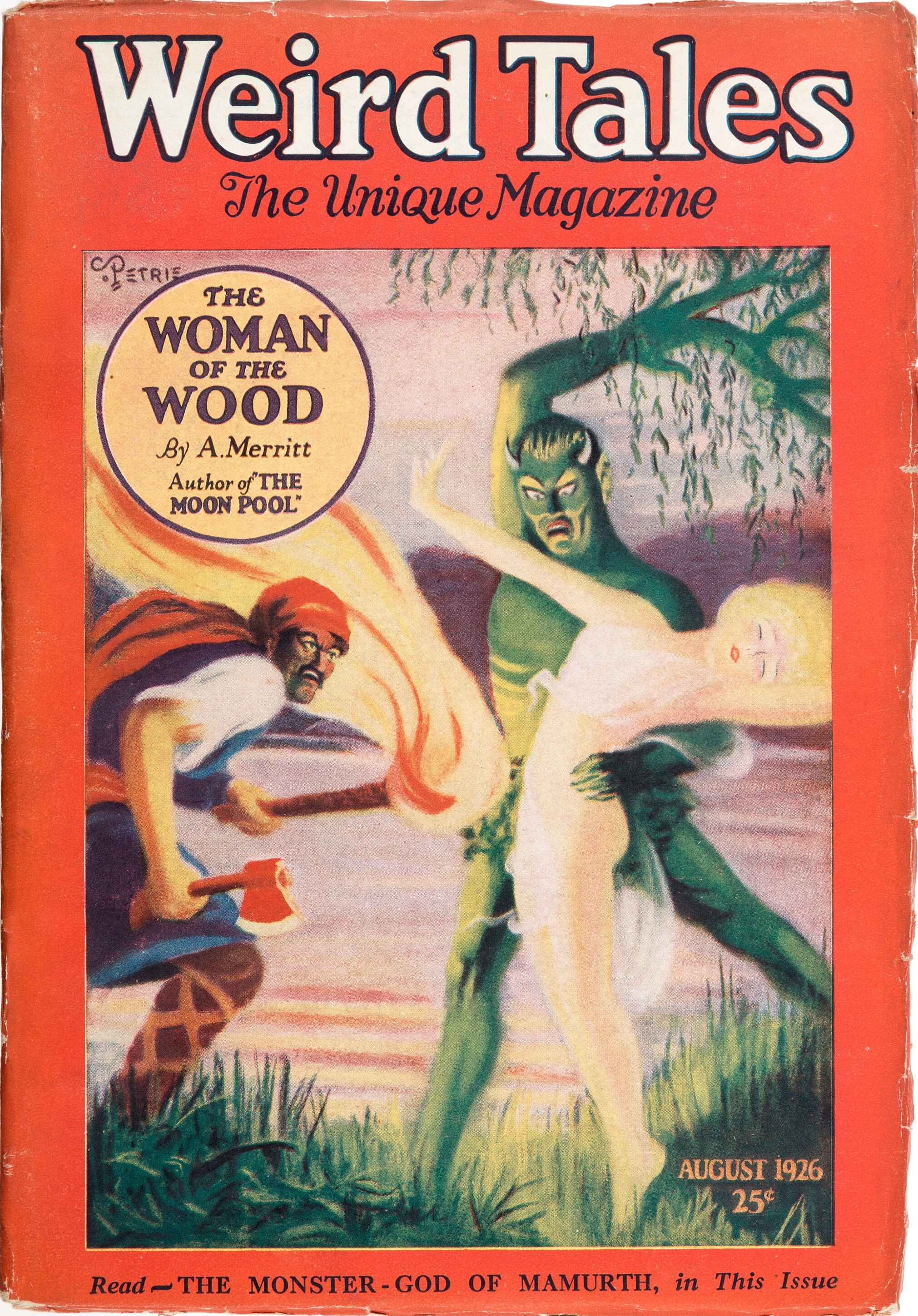 Cover of the pulp magazine Weird Tales (August 1927, vol. 8, no. 2) featuring The Woman of the Wood by A. Merritt.